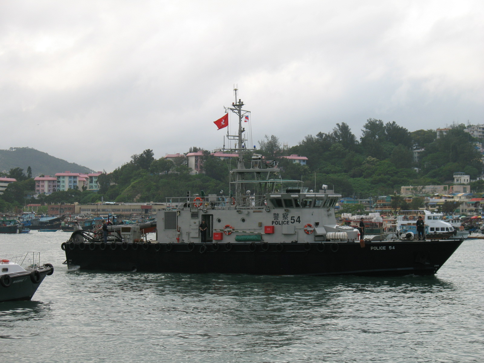 Police Patrol Boats No.54 for Hong Kong Police Force, at the Cheung Chau Typhoon Shelter. 中文（香港）: 一艘香港警察第54號水警巡邏輪，在長洲避風塘內巡邏。